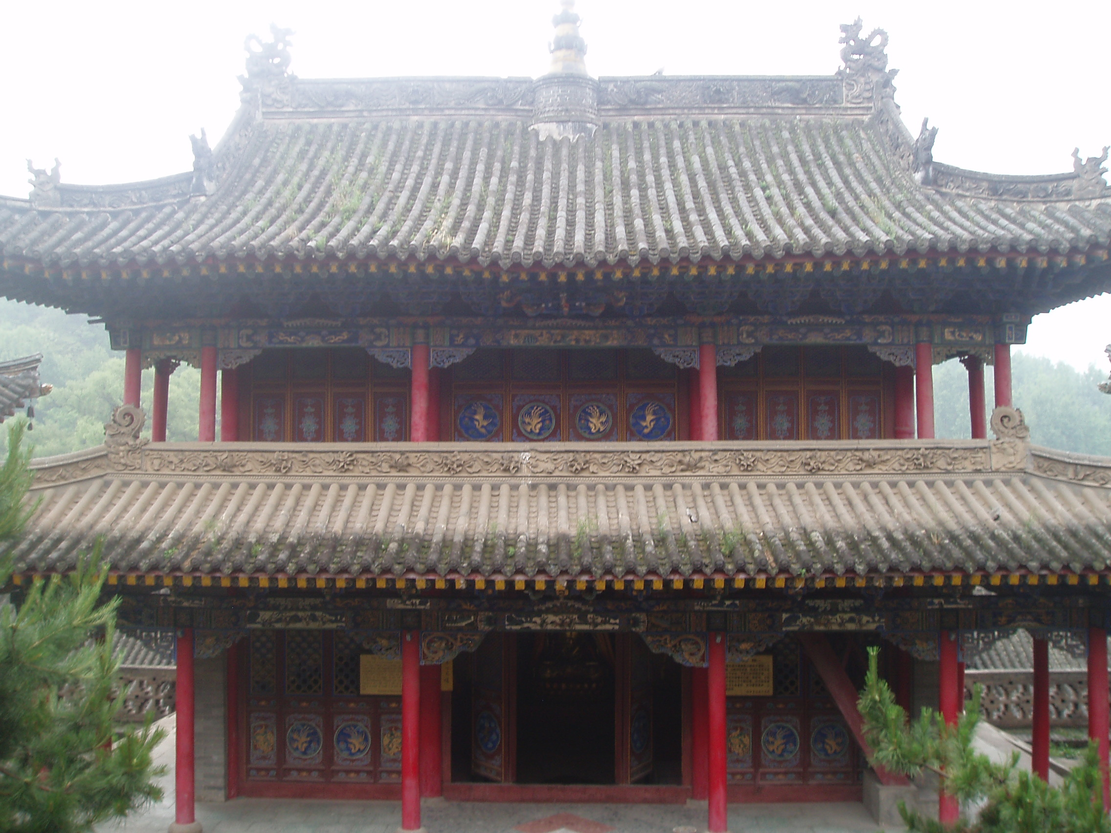 Rear view of Scripture Hall of the Zunsheng temple in Shanxi, China.